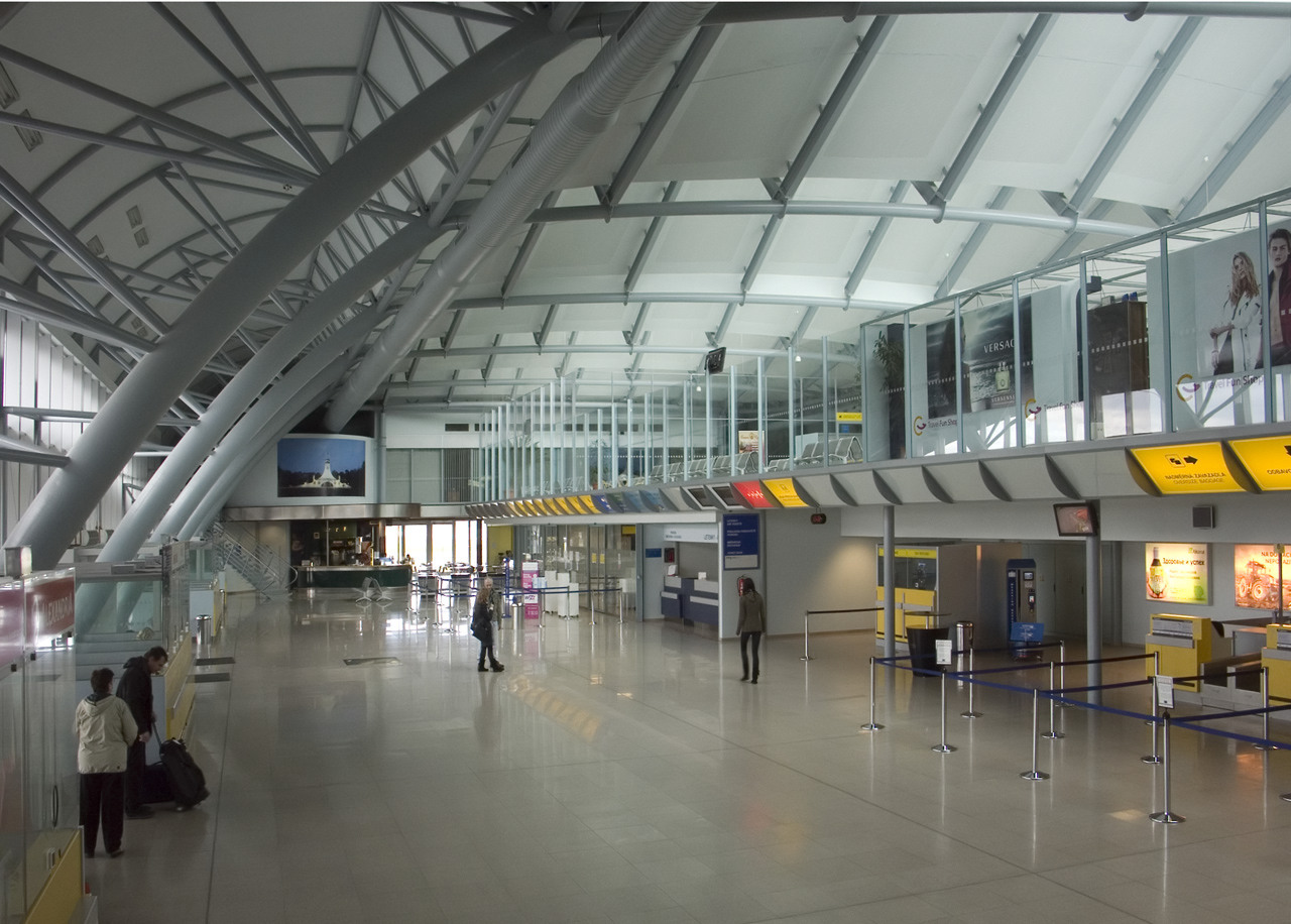 Interier of Departure Terminal of Brno-Tuřany airport, Czech Republic